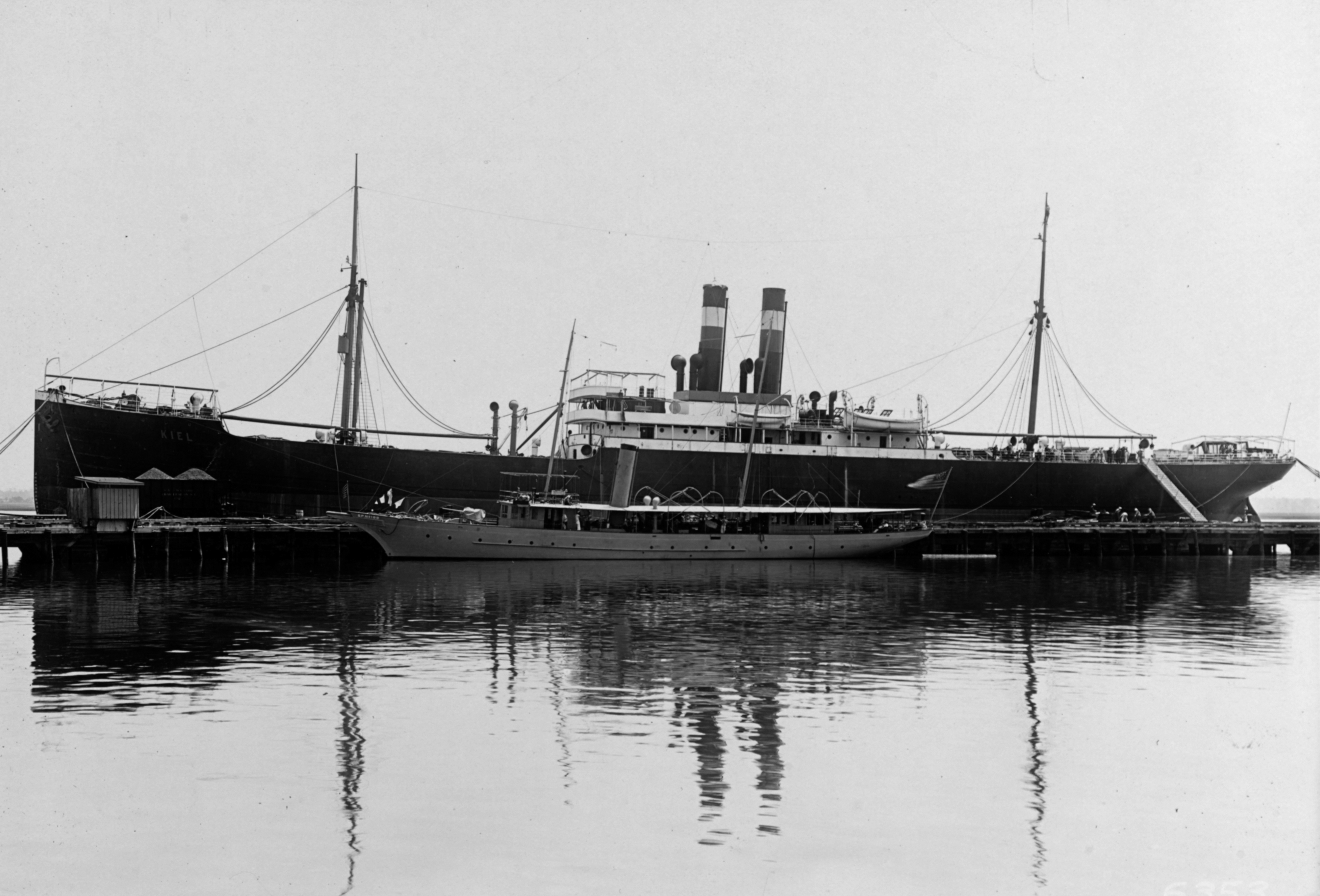 The U.S. Navy cargo ship USS Camden (ID No. 3143) at the Charleston Naval Shipyard, South Carolina, 11 June 1917, while being converted from the German cargo steamship Kiel. USS Reposo II (SP-198) is on the near side of the pier.